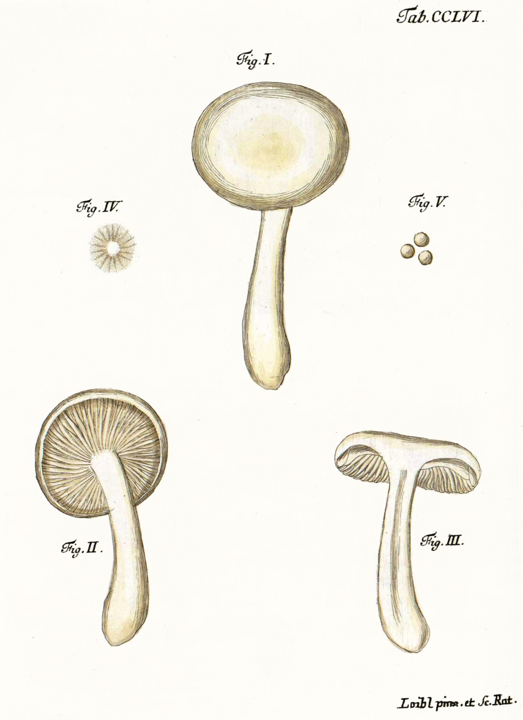 Explanation of the 97th plate by the author J.C. Schäffer (in German und Latin) The plate shows Agaricus albus Schaeff., Fungorum qui in Bavaria et Palatinatu circa Ratisbonam nascuntur icones, Vol 4: Seite 68 (1774). According to the right scientific name is now Tricholoma album (Schaeff.) P. Kumm.